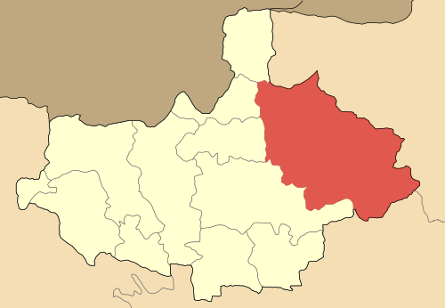 Locator map of Krousson municipality (Δήμος Κρουσσών) at Kilkis perfecture, Greece.